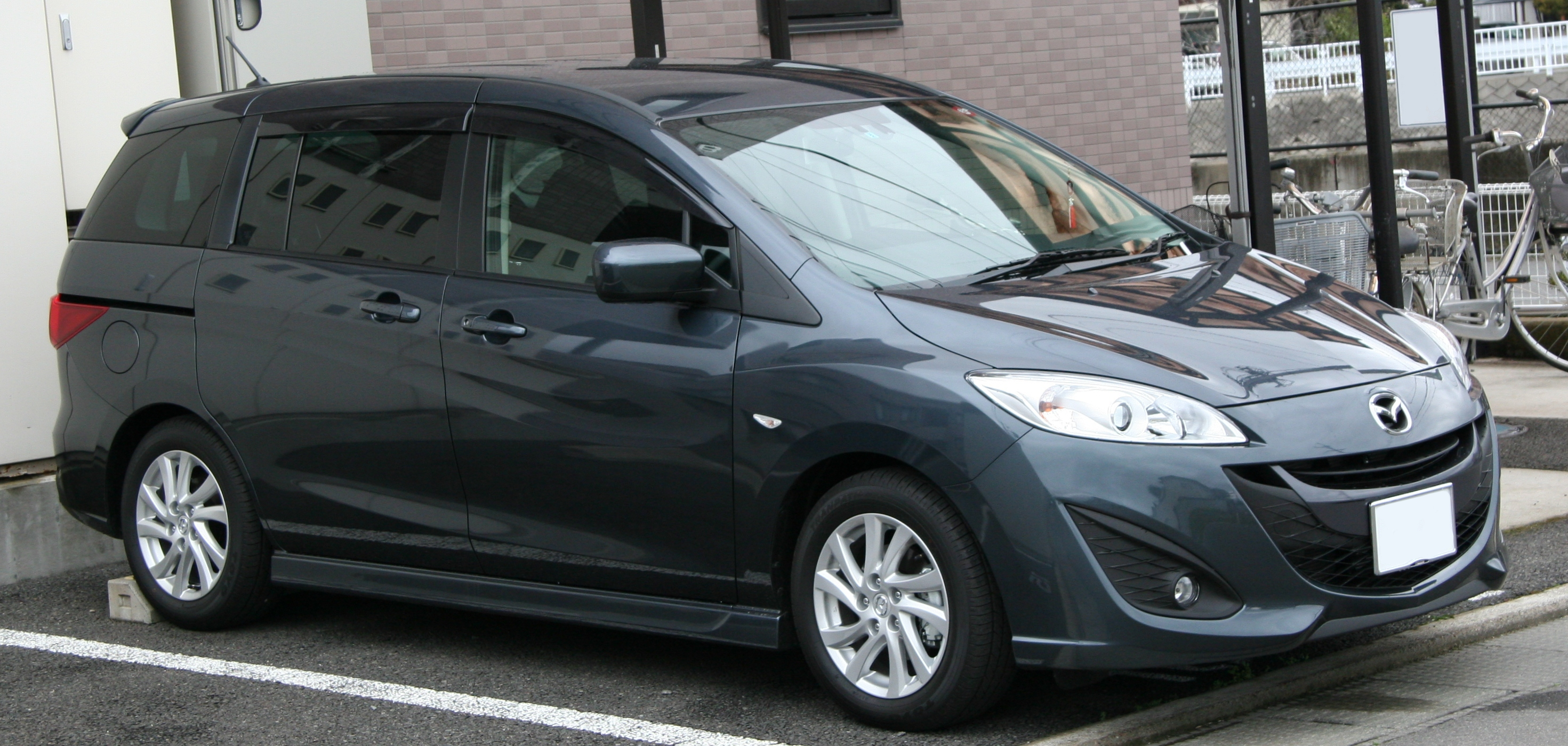 Mazda Premacy